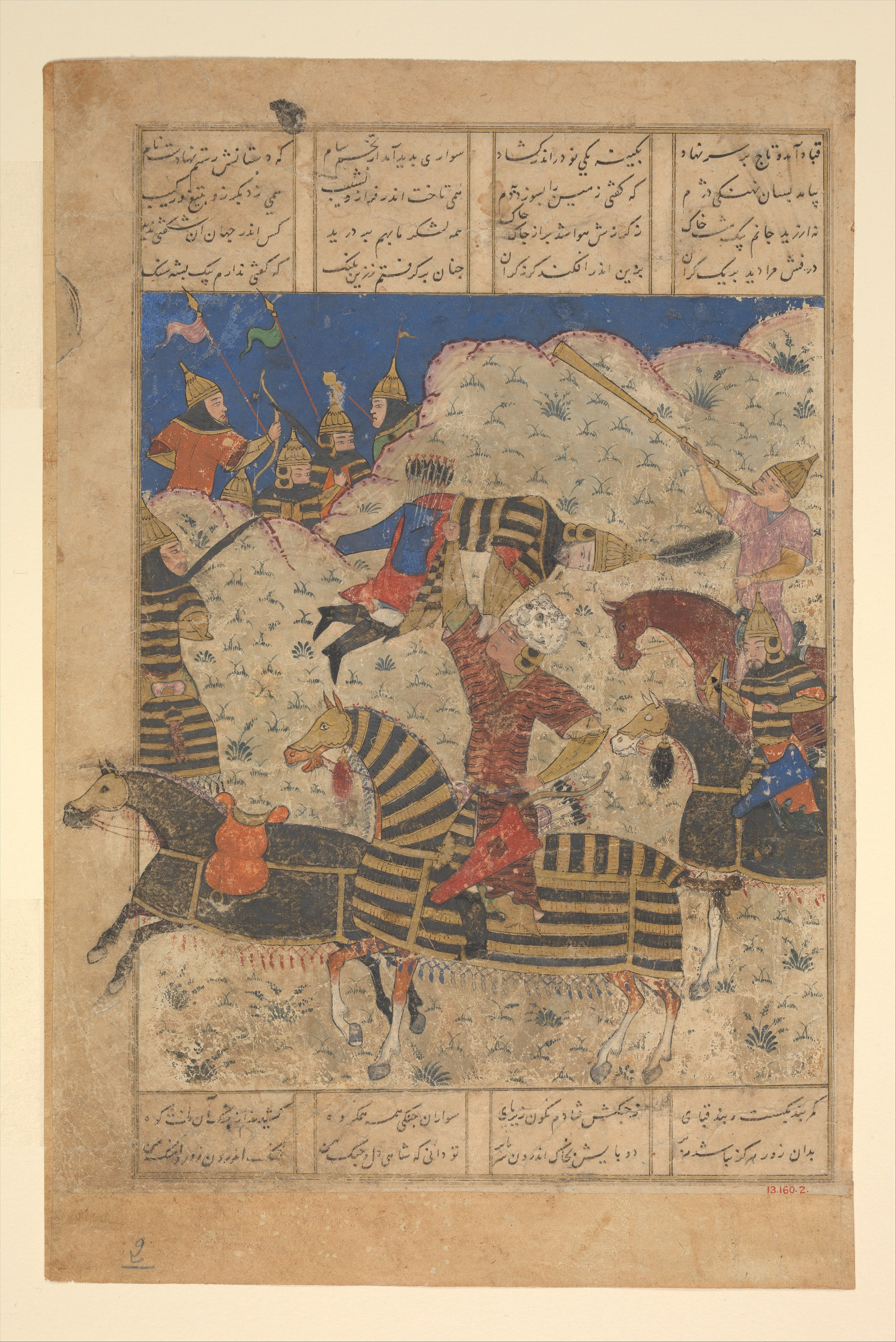 Folio from an illustrated manuscript; Codices